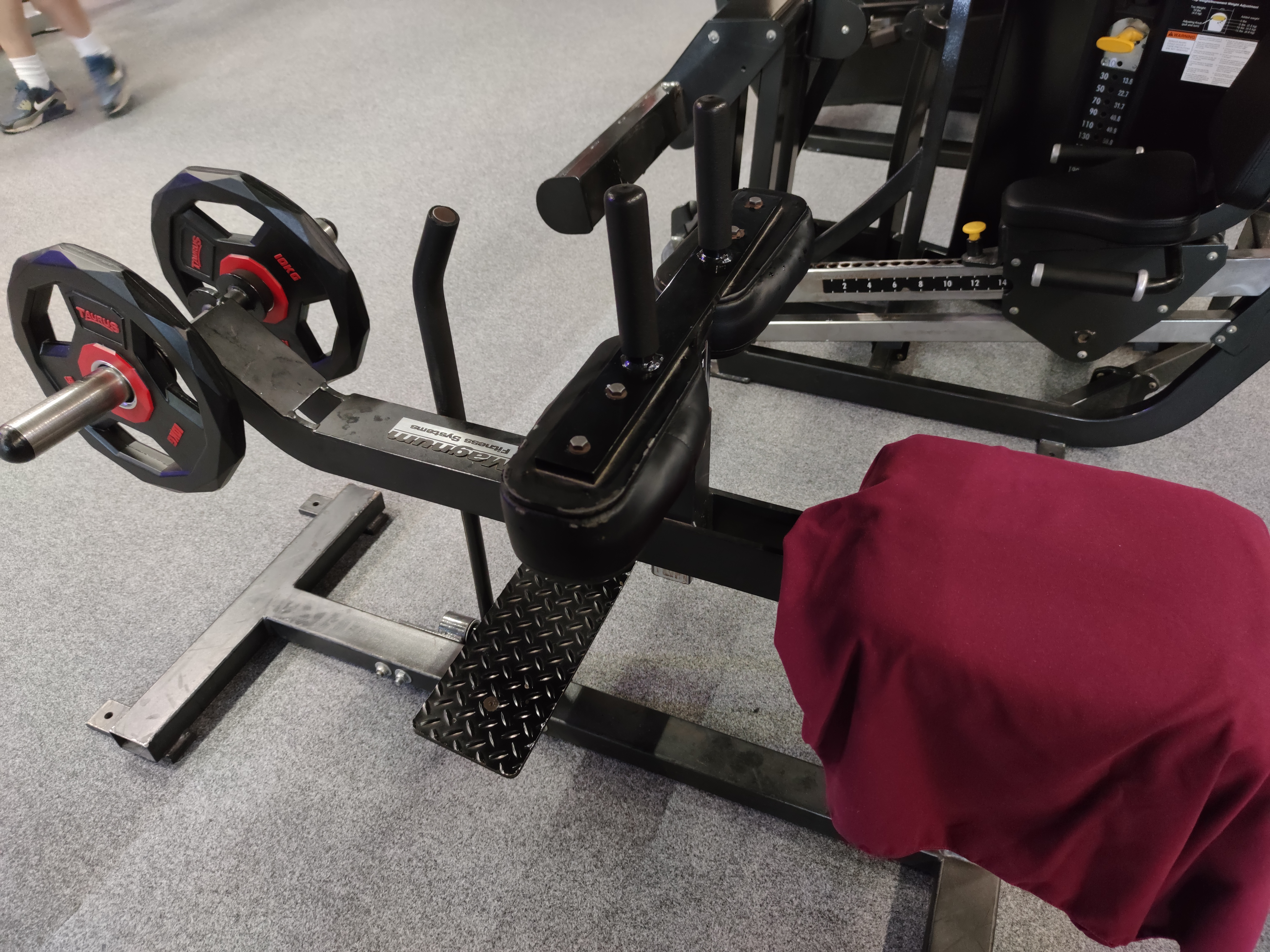 Seated calf machine